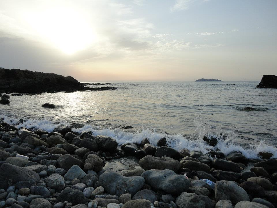 A place for relax, meditation and tranquility